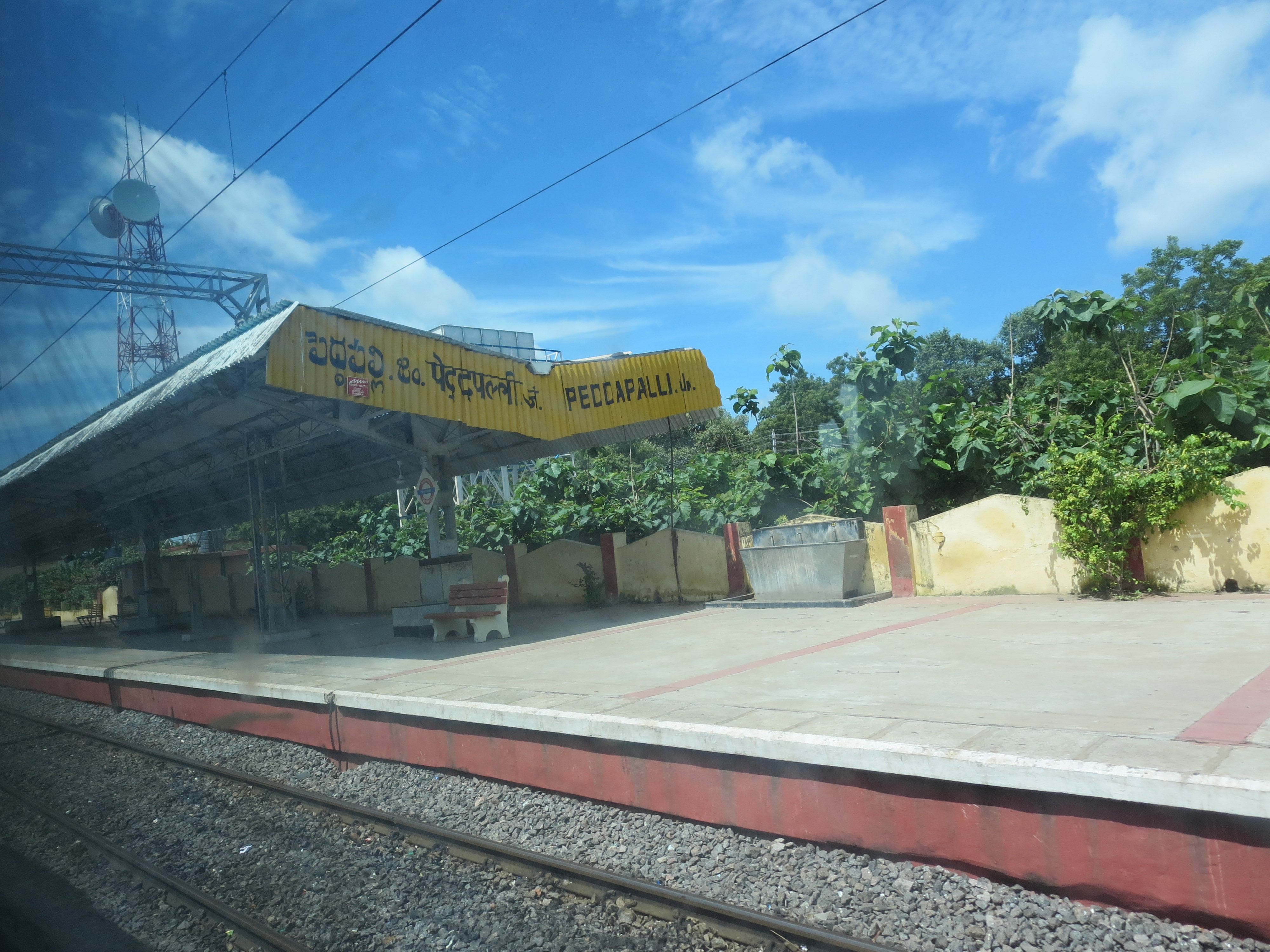 Peddapally railway station